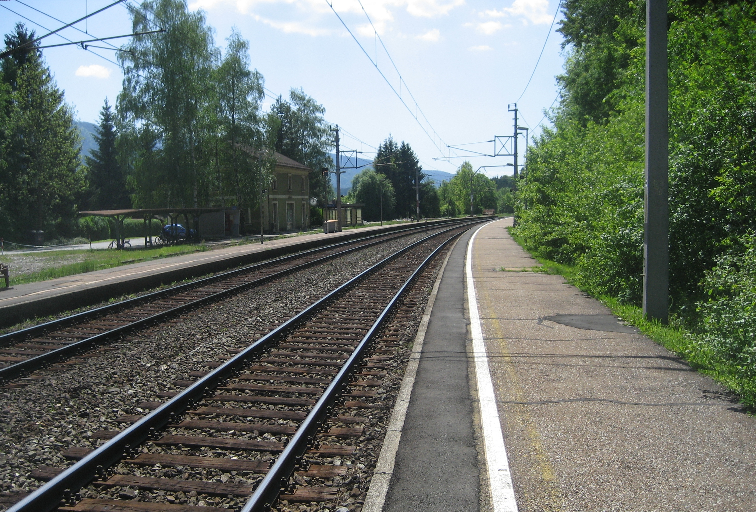 train station Langenwang in Styria